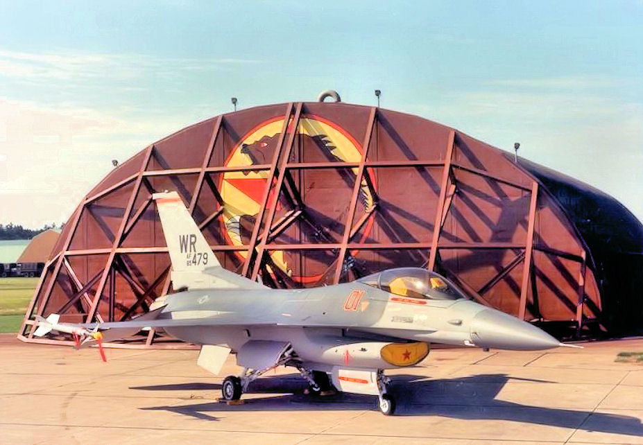 527th Aggressor Squadron - General Dynamics F-16C Block 30A Fighting Falcon 85-1479 at RAF Bentwaters, England, 1988 upon squadron receipt of aircraft.